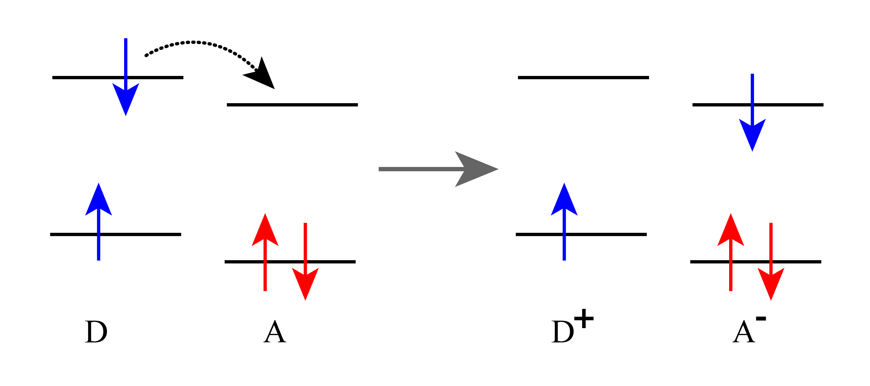 Schematic of photoinduced electron transfer (arrow indicates electron movement).